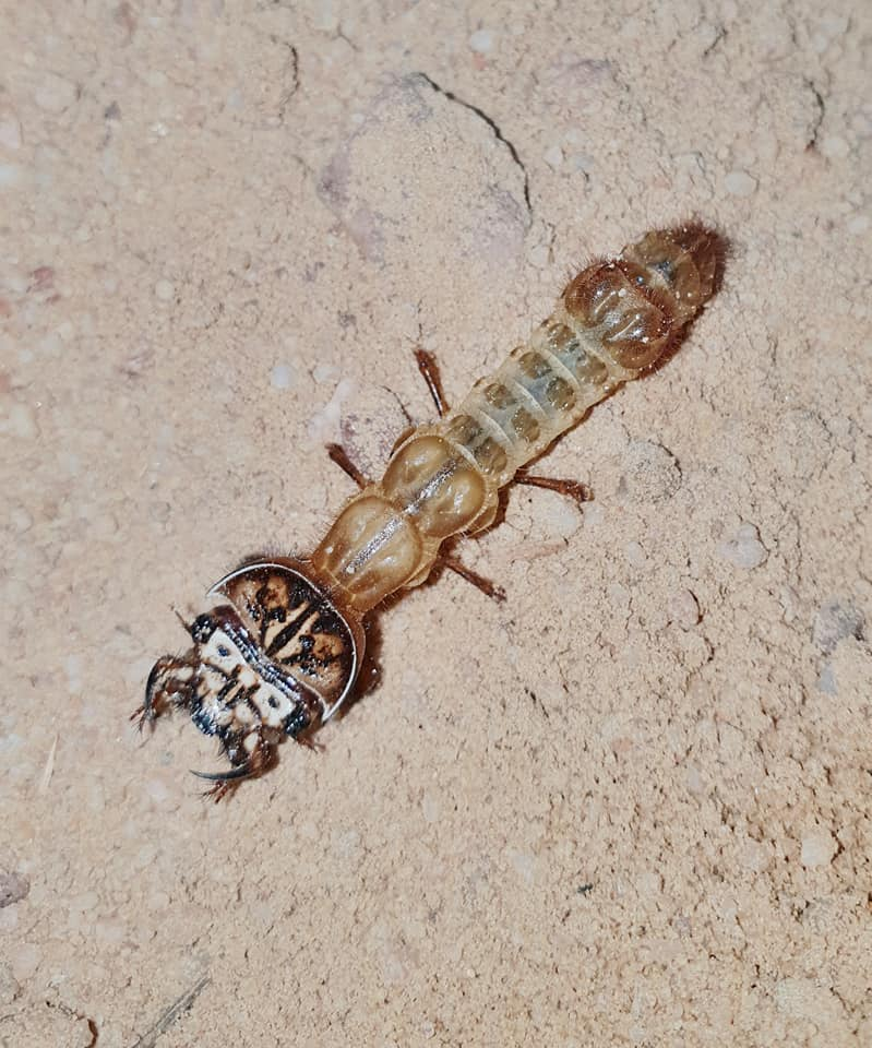 Manticora scabra - Brand-se-Berg (near Klawer), Western Cape, South Africa